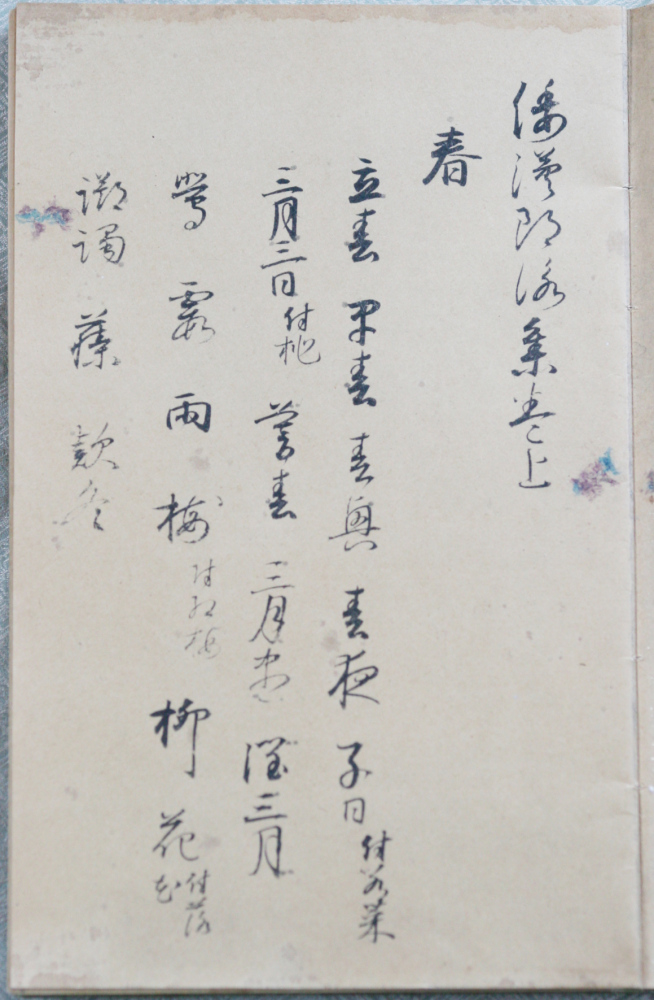 IYO GIRE : Wakan rōeishū Opening page of uncomplete volume of Manuscript book, ink on ornamented paper. 25.6cm height. 11th century